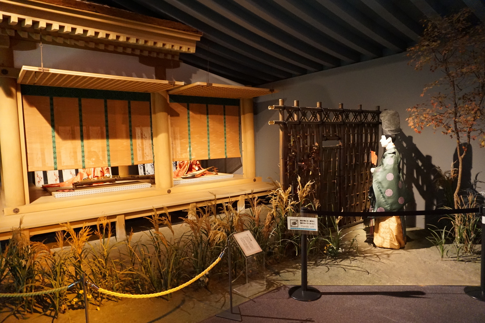 A scene from the book in the Tale of Genji museum